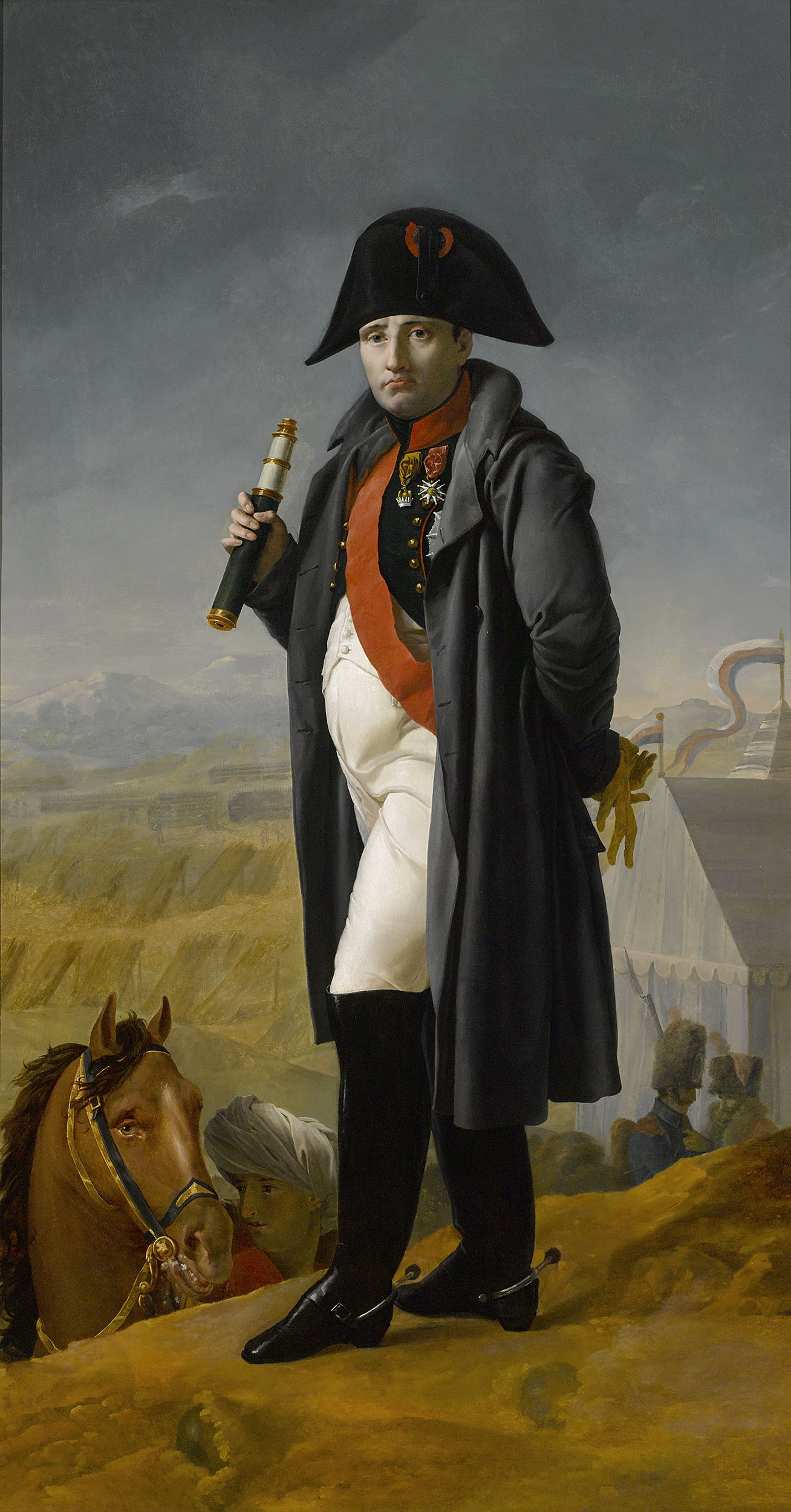 Napoléon Before The Battle Of Moscow By Joseph Franque